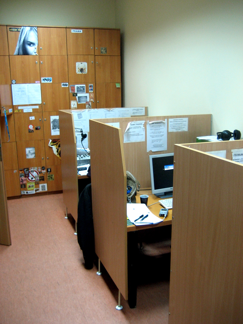 Radio Afera. Newsroom.